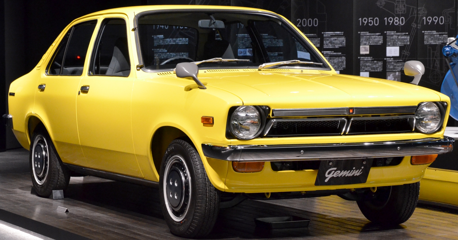 Isuzu Gemini LT